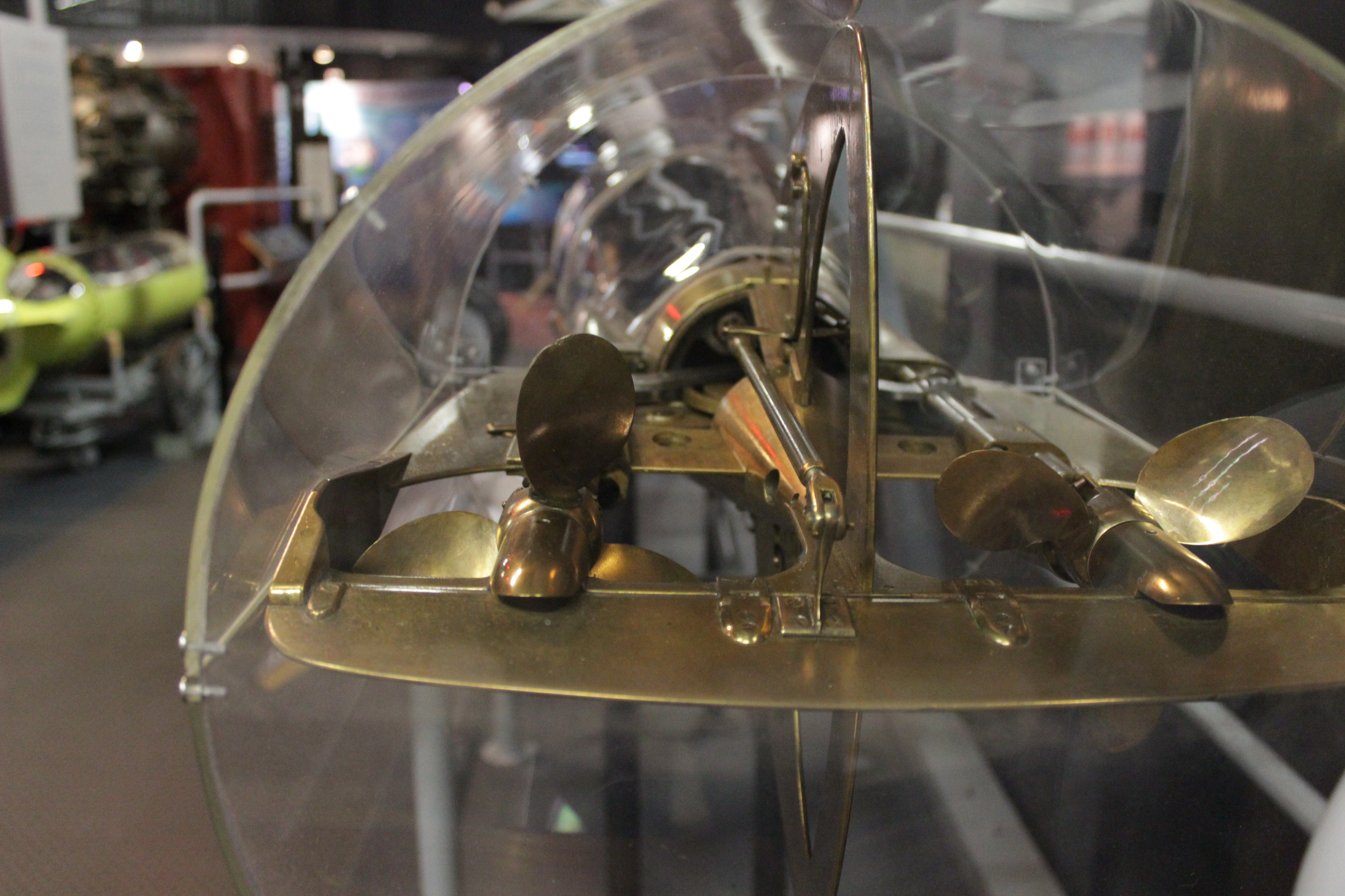 The two propellers of a Howell torpedo.